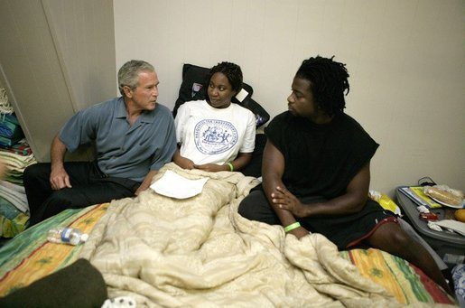 George W Bush visiting a family displaced by Hurricane Katrina during his September 5, 2005 visit to the gulf coast at the Bethany World Prayer Center shelter in Baton Rouge, La.